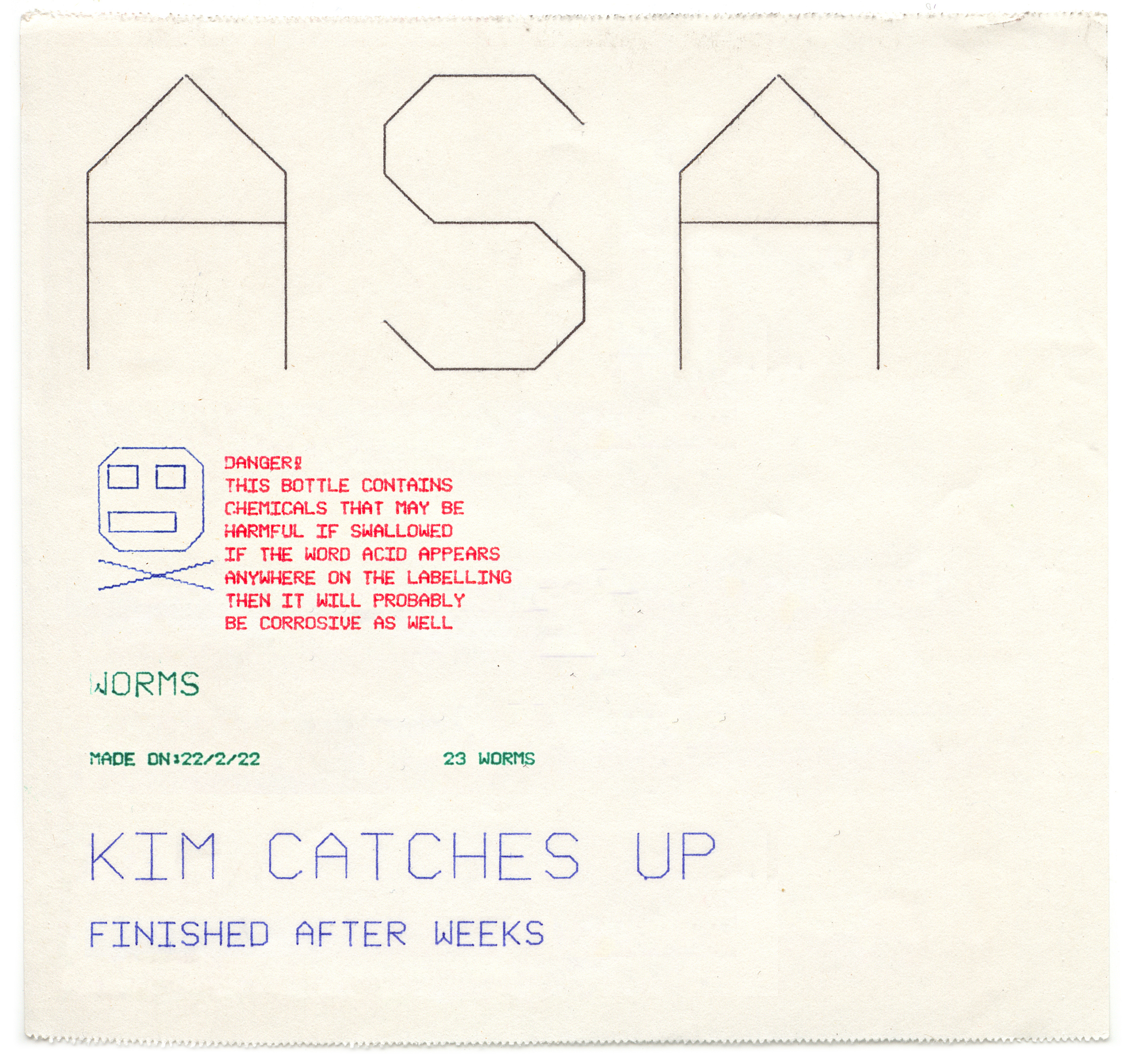 Composite of example printouts generated by an Atari 1020 plotter. Width of paper (excluding surround) approx. 11.5cm.